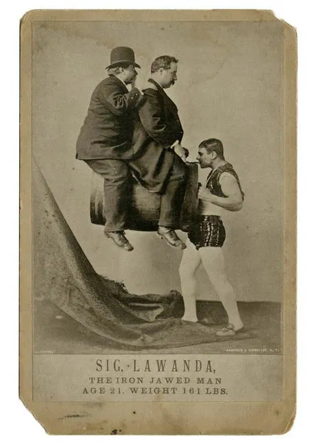 It's an image of a strong man Signor Lawanda lifting two large men using, in part, his jaws.